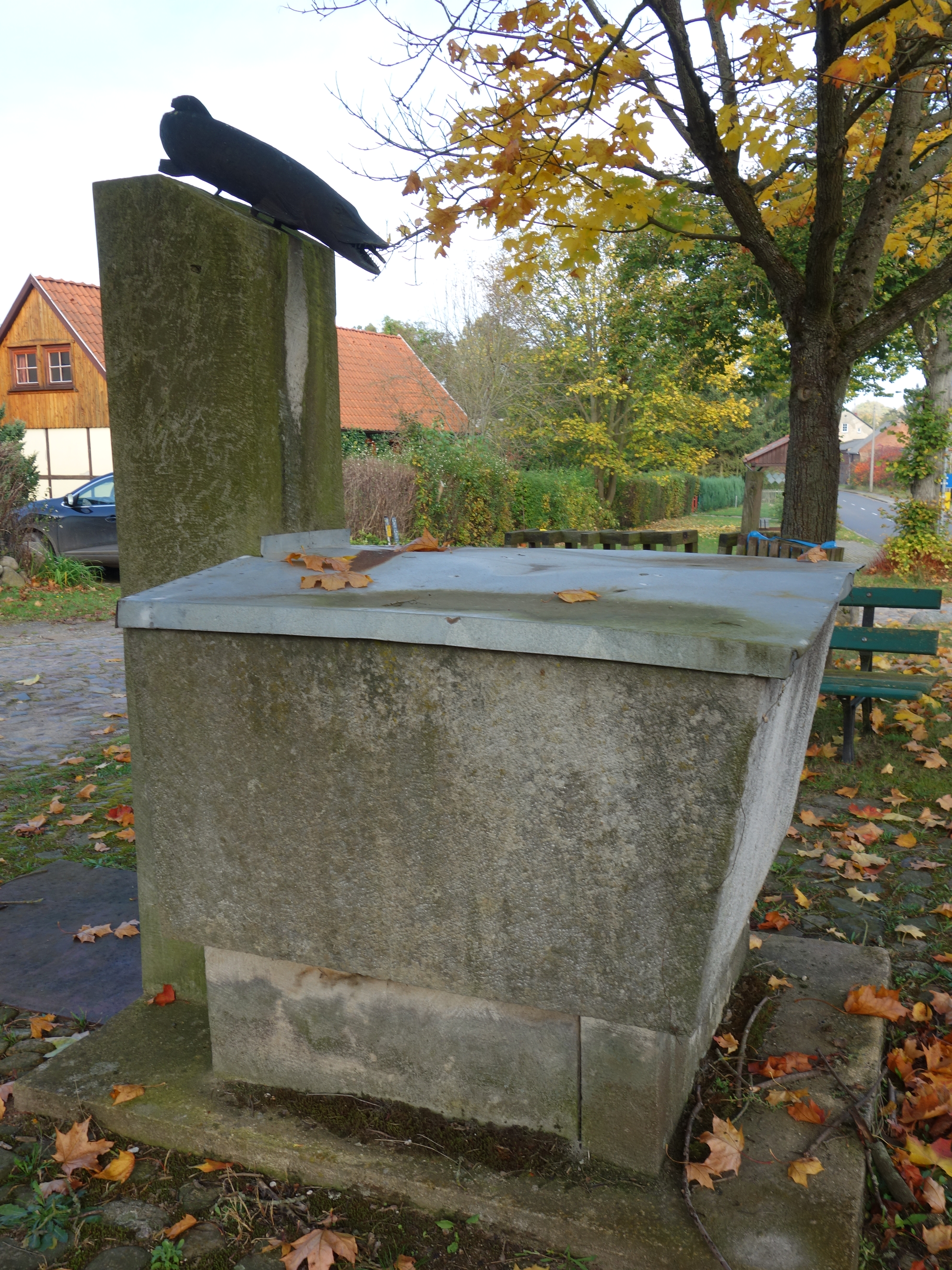 Village pump in Jakobshagen, Uckermark